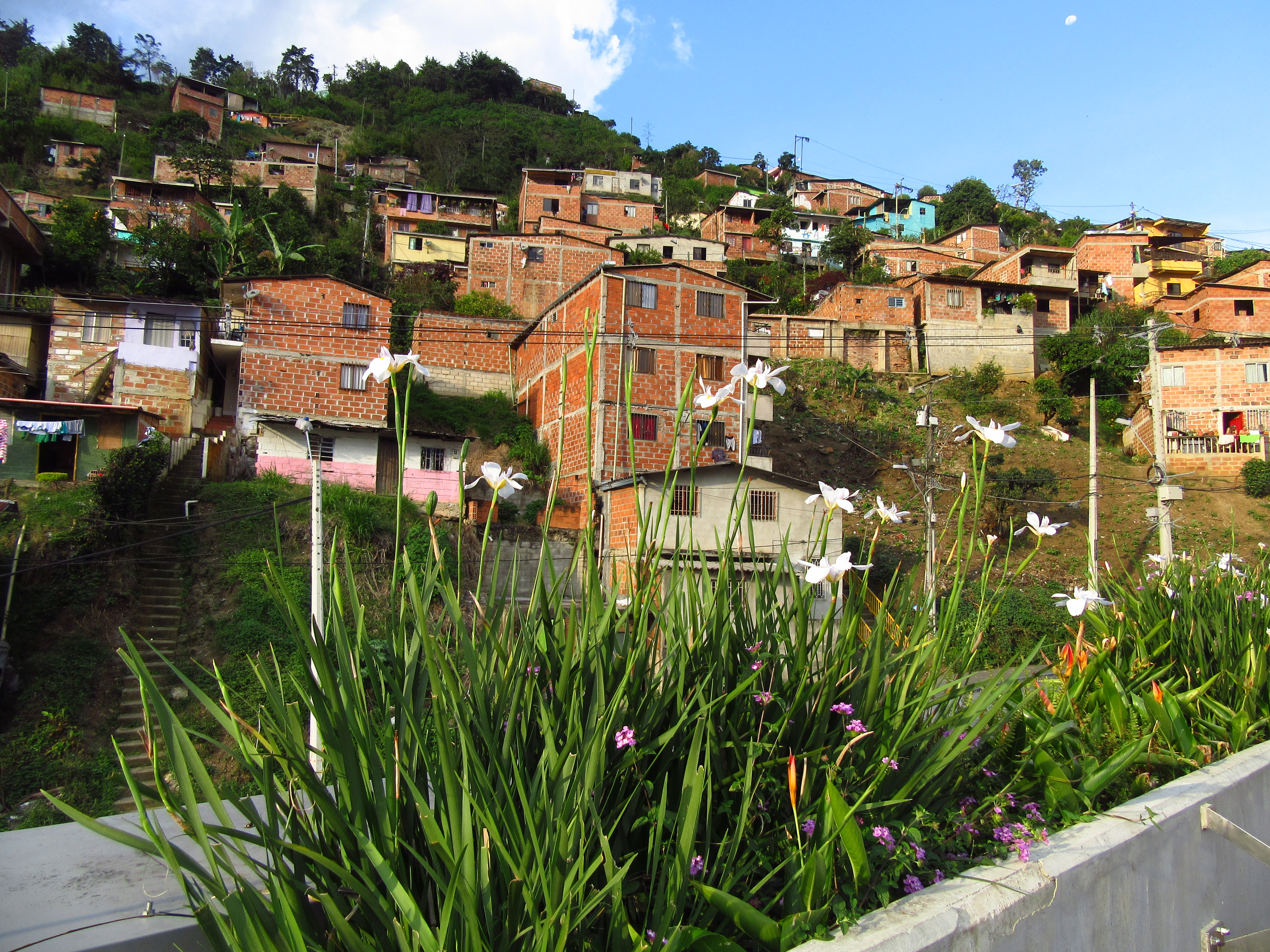 Barrio Villa Turbay de la Comuna 8. Comunas de Medellín.